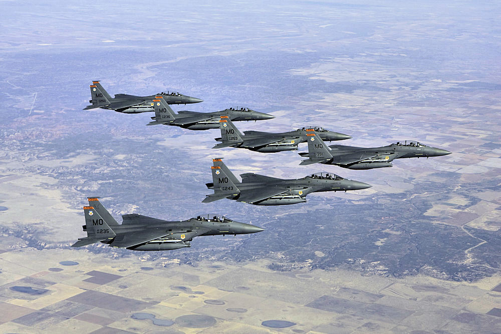 McDonnell Douglas F-15E-49/50-MC Strike Eagles 90–235, 90–243, 90–253, 90–236 & 90–250 of the 391st Fighter Squadron, 366th Operations Group at Mt. Home AFB.